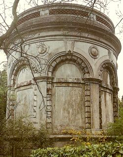 Reservoir at the old peoples' home of the Brignole-Galliera Foundation, Clamart, France. Structure by Joseph Monier, architectural design by Prosper Bobin. Built in the early 1890s.